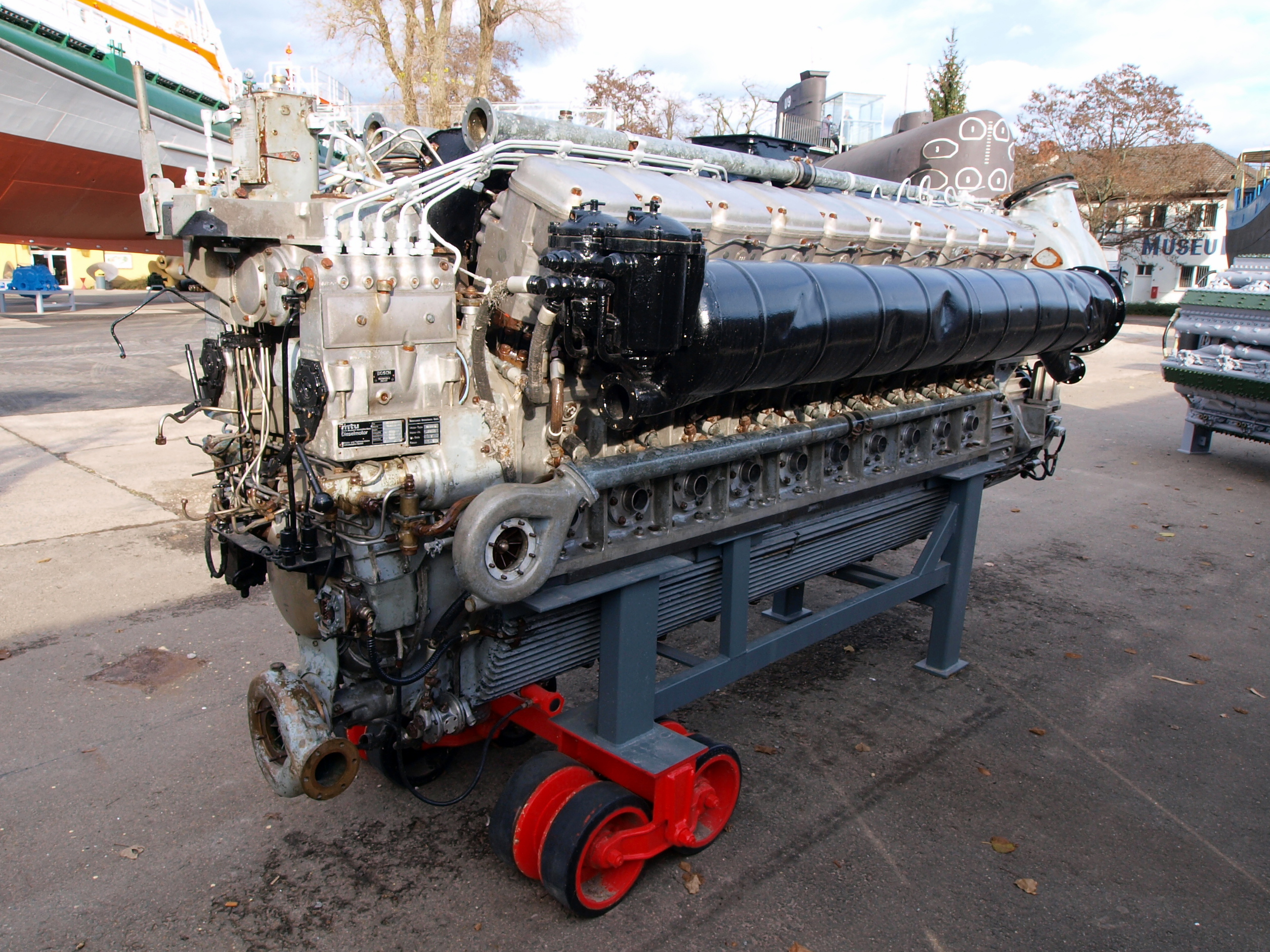 Photographed at the Technik Museum Speyer, Germany.